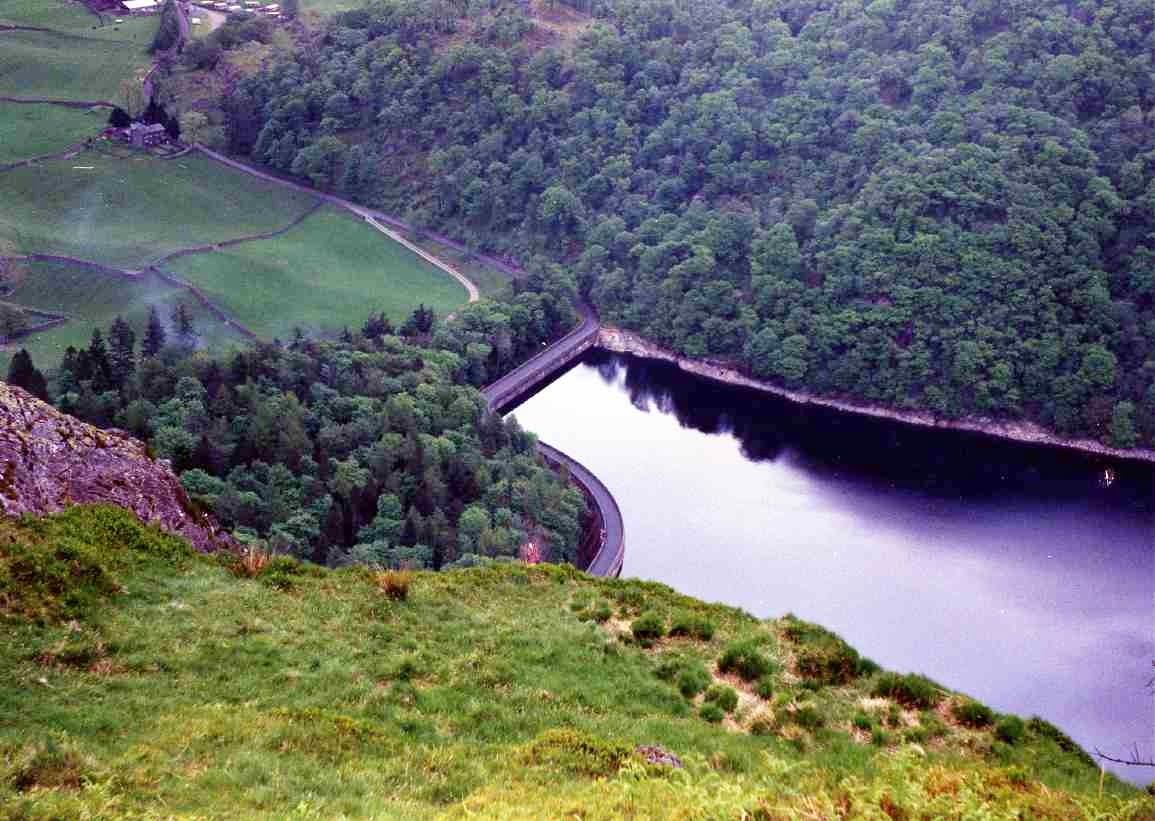 Looking down on the Thirlmere dam from the summit of Raven Crag. Personal photograph by Mick Knapton